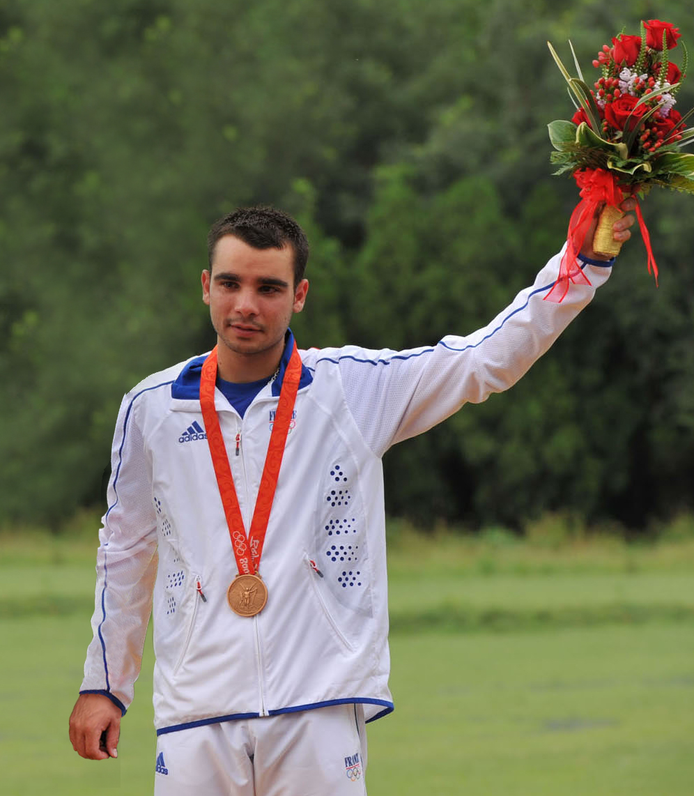 Portrait of Anthony Terras